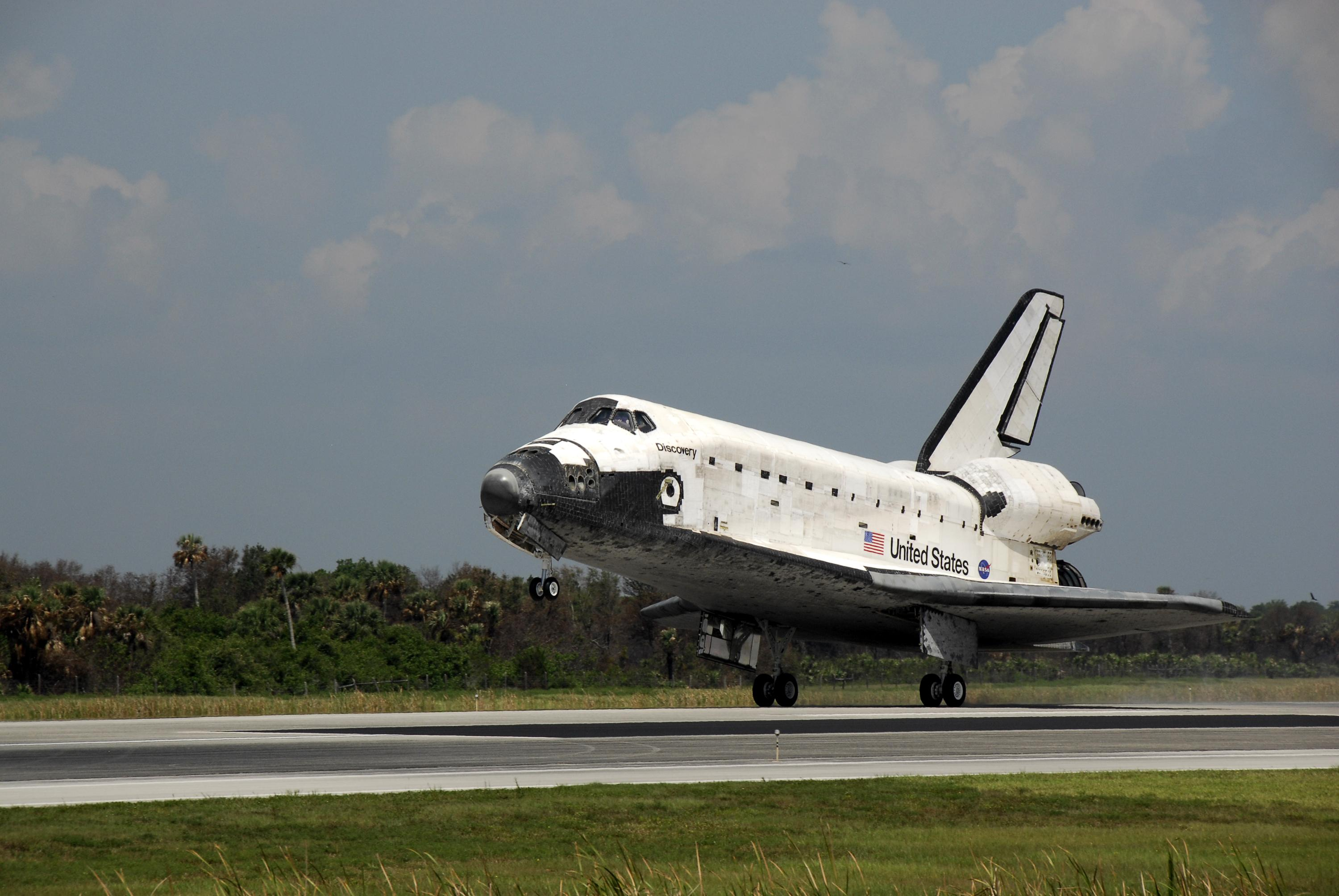 Space Shuttle Discovery touches down on runway 15 of the Shuttle Landing Facility at NASA's Kennedy Space Center, concluding the 14-day STS-124 mission to the International Space Station. The main landing gear touched down at 11:15:19 a.m. (EDT) on June 14, 2008. The nose landing gear touched down at 11:15:30 a.m. and wheel stop was at 11:16:19 a.m.